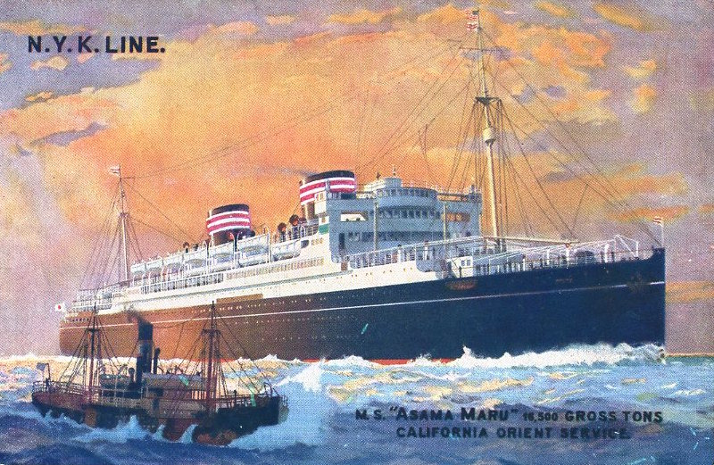 View of the NYK Line ship Asama Maru, 1930s postcard